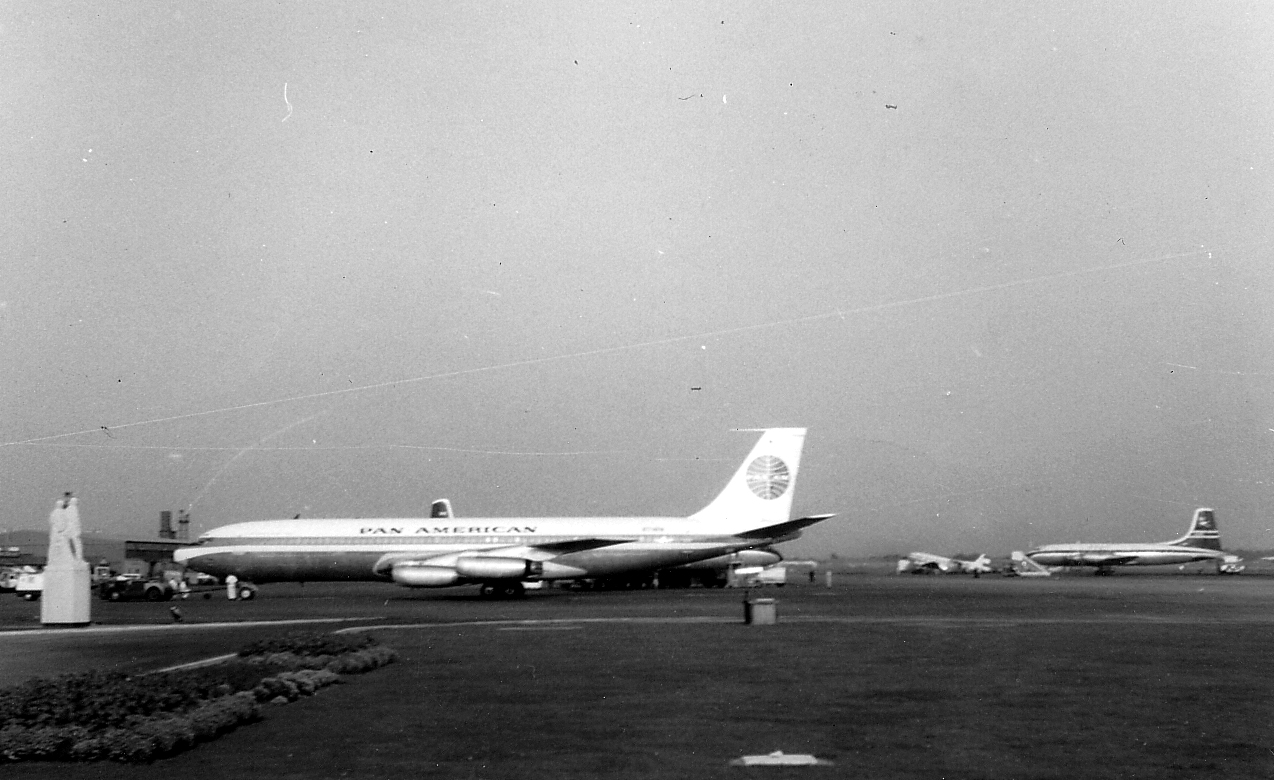 The intercontinental terminal of a former London airport. An early version of Pan Am Boeing 707 aeroplane was in the foreground. This photograph was taken in 1960. This land is now occupied by hotels and parking lots, but if you land on the northern runway you can still see the taxiways going up to the fence for no apparent reason.